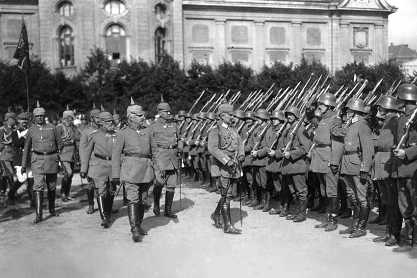 Kaiser Wilhelm II inspects troops in captured Riga. In the Background: the Museum of Art. 1917